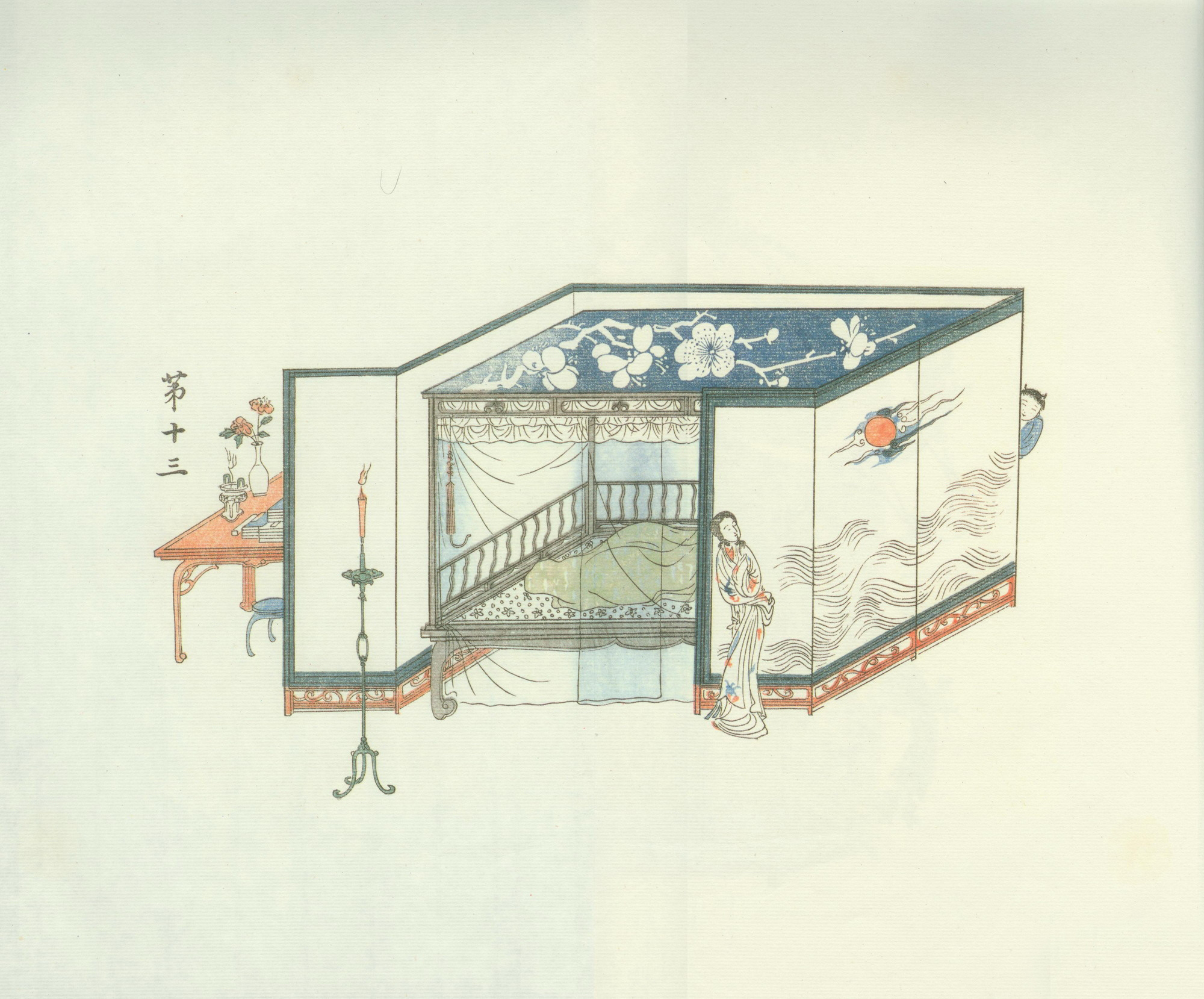 illustrations of the book "Romance of the Western Chamber"